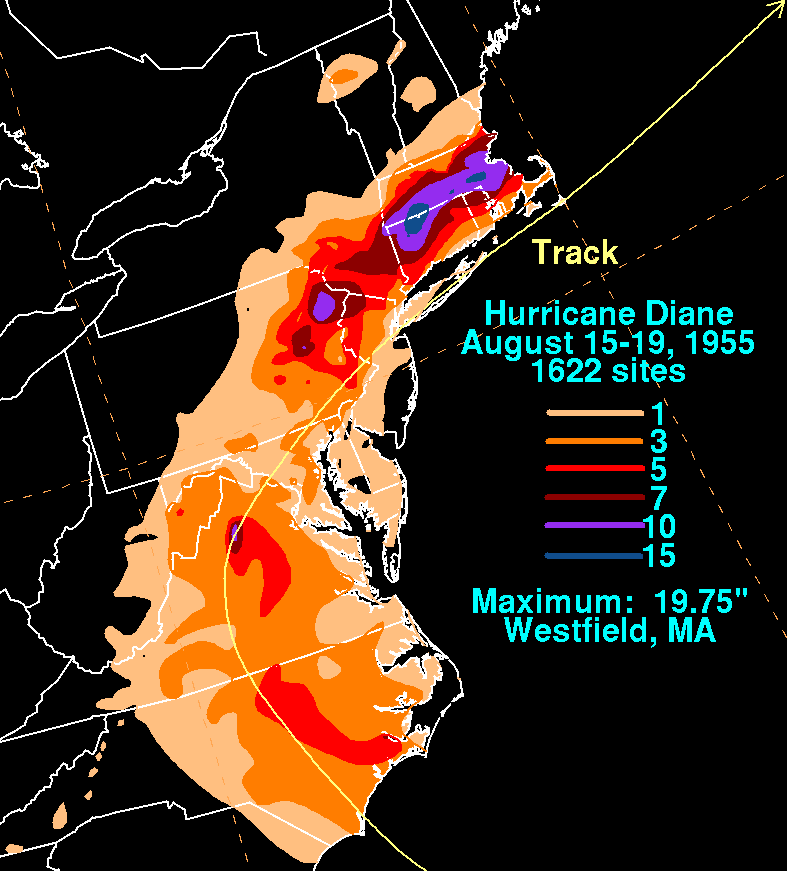 Rainfall produced by Hurricane Diane during August 1955.